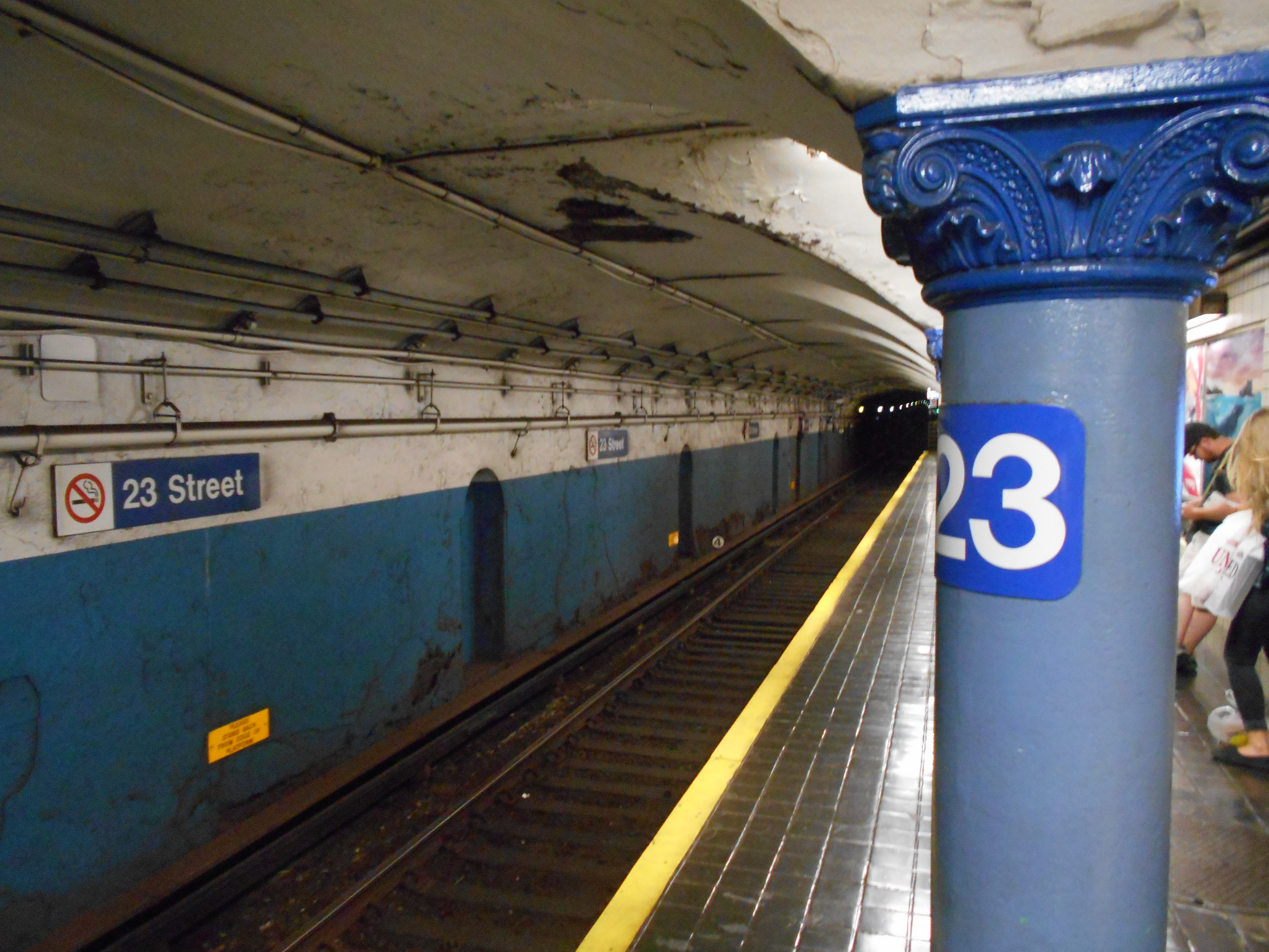 The 23rd Street Port Authority Trans-Hudson station in Manhattan.